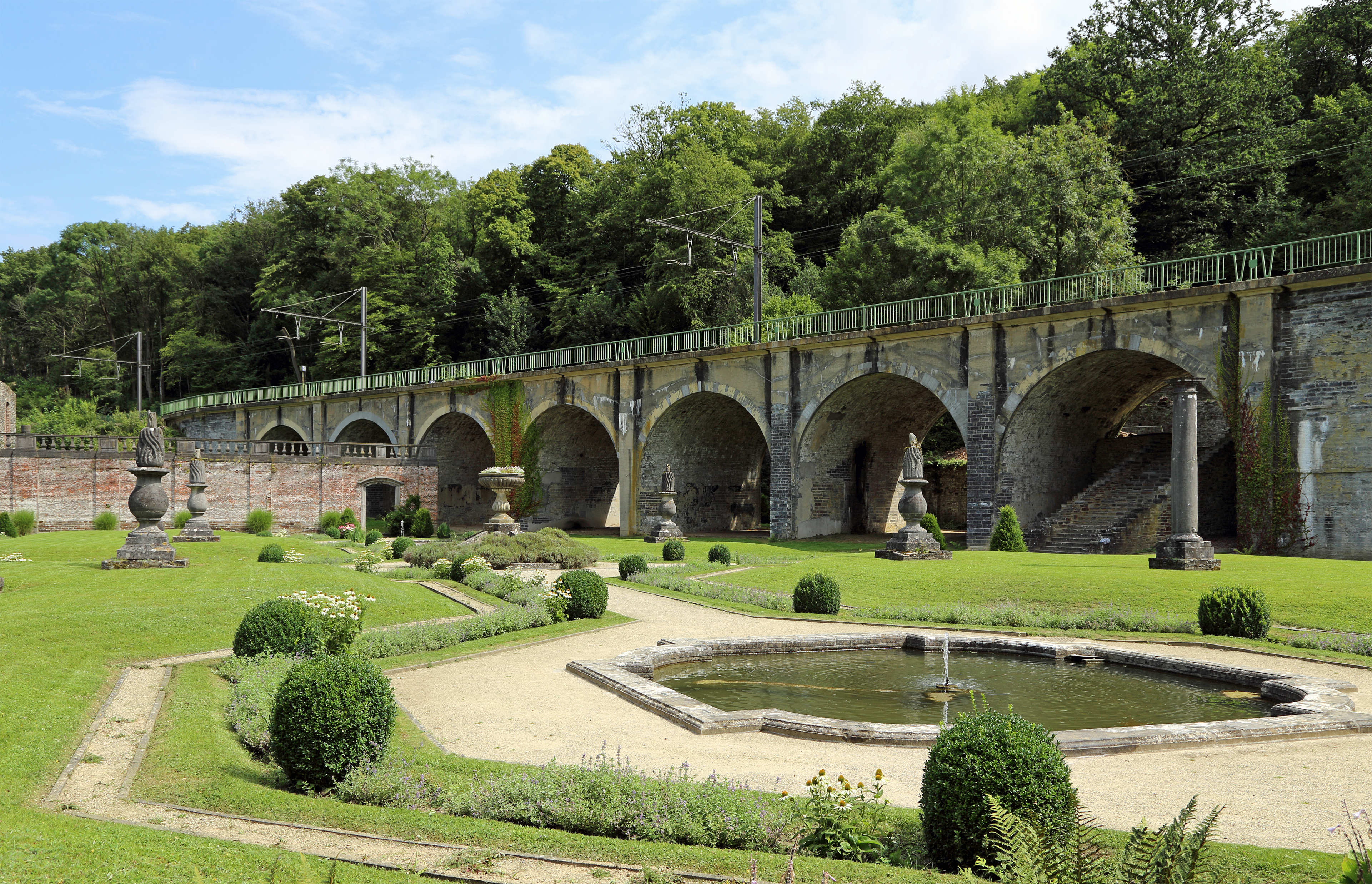 Villers-la-Ville (Belgium): the railway viaduct, seen from the gardens of the former abbey